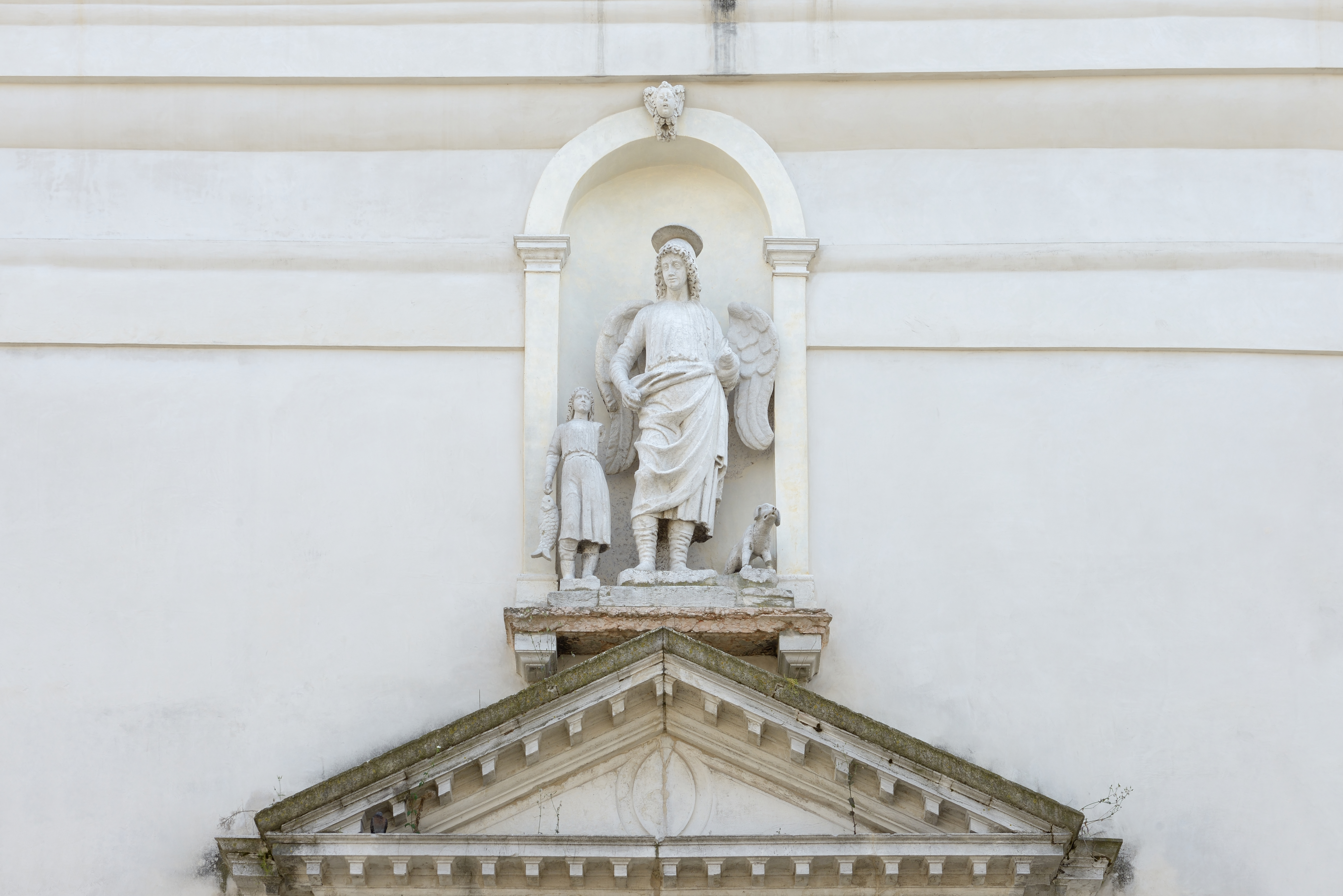 Statue of Sant Angel Raphael with Tobias on the portal on the North facade of the Angelo San Raffaele church in Venice.